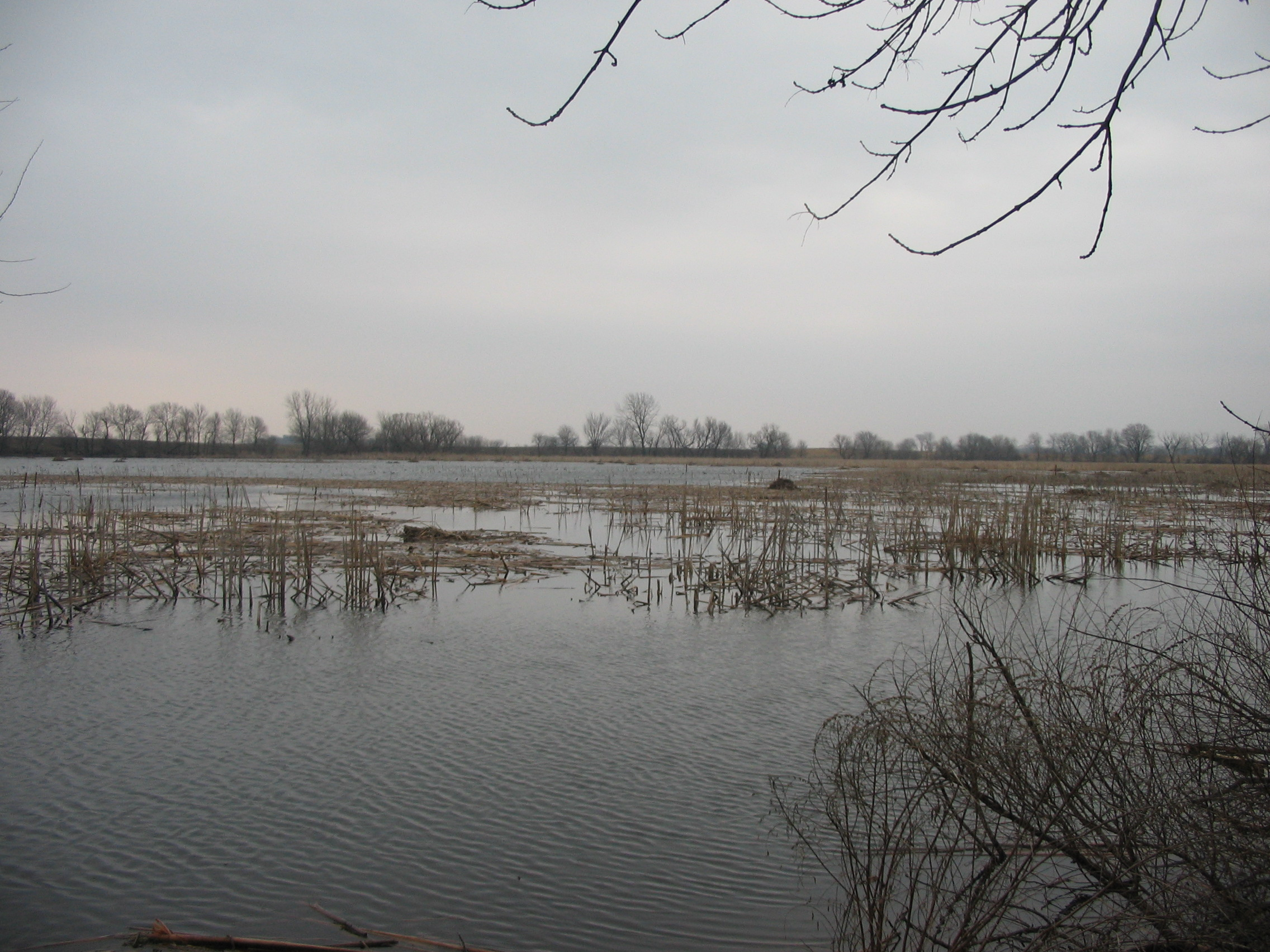 Shaun Murphy